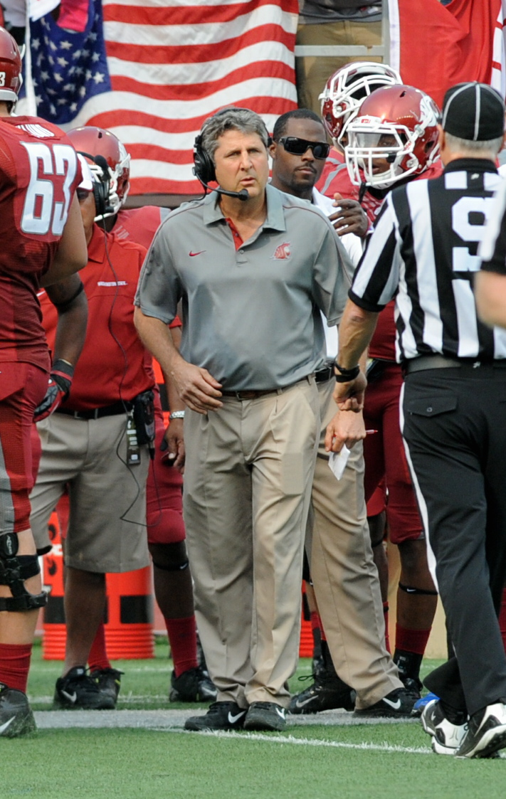 Washington State football coach Mike Leach during a 2012 season game.